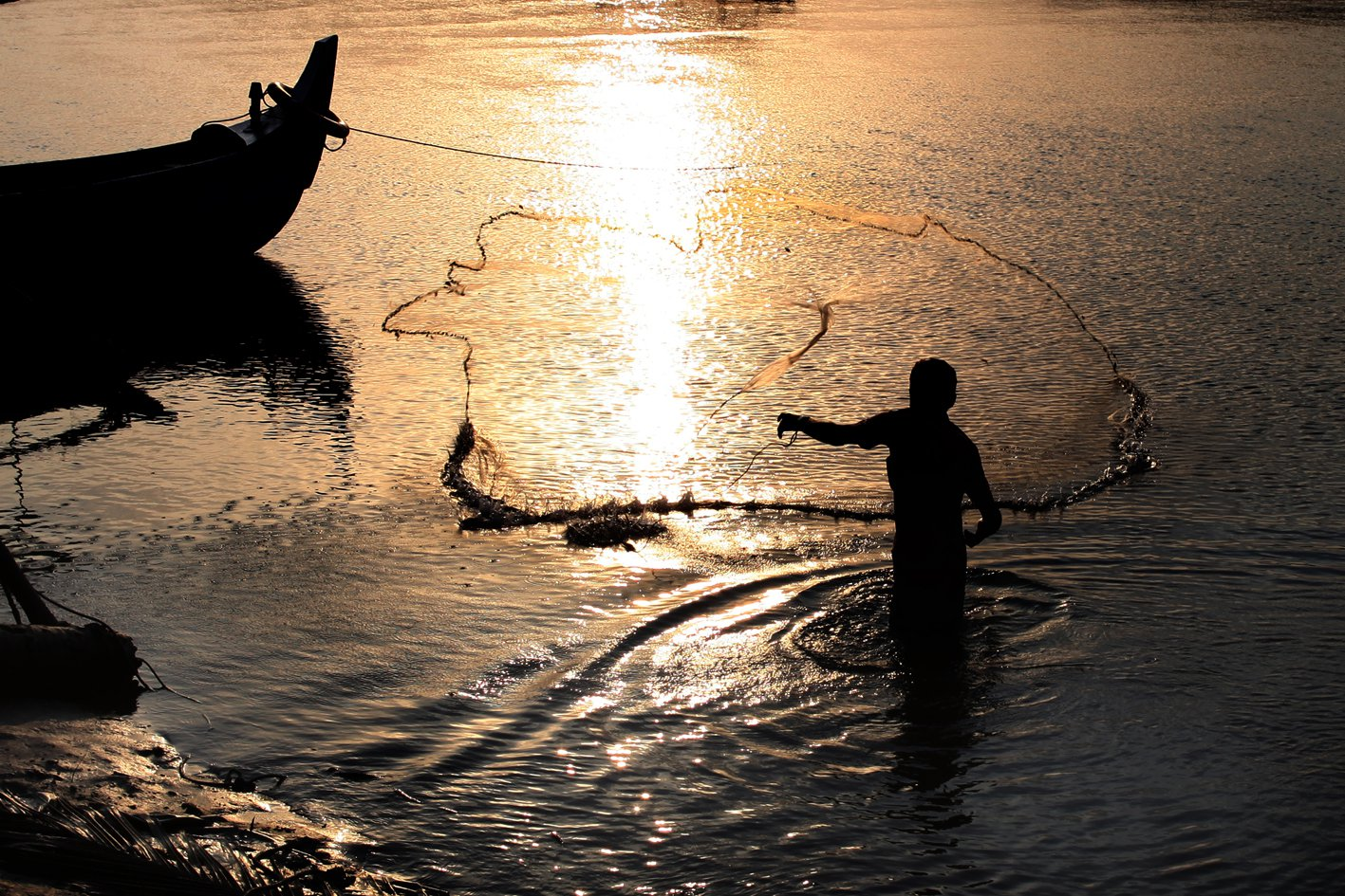 Tarkarli Photo by Sandeep Wairkar